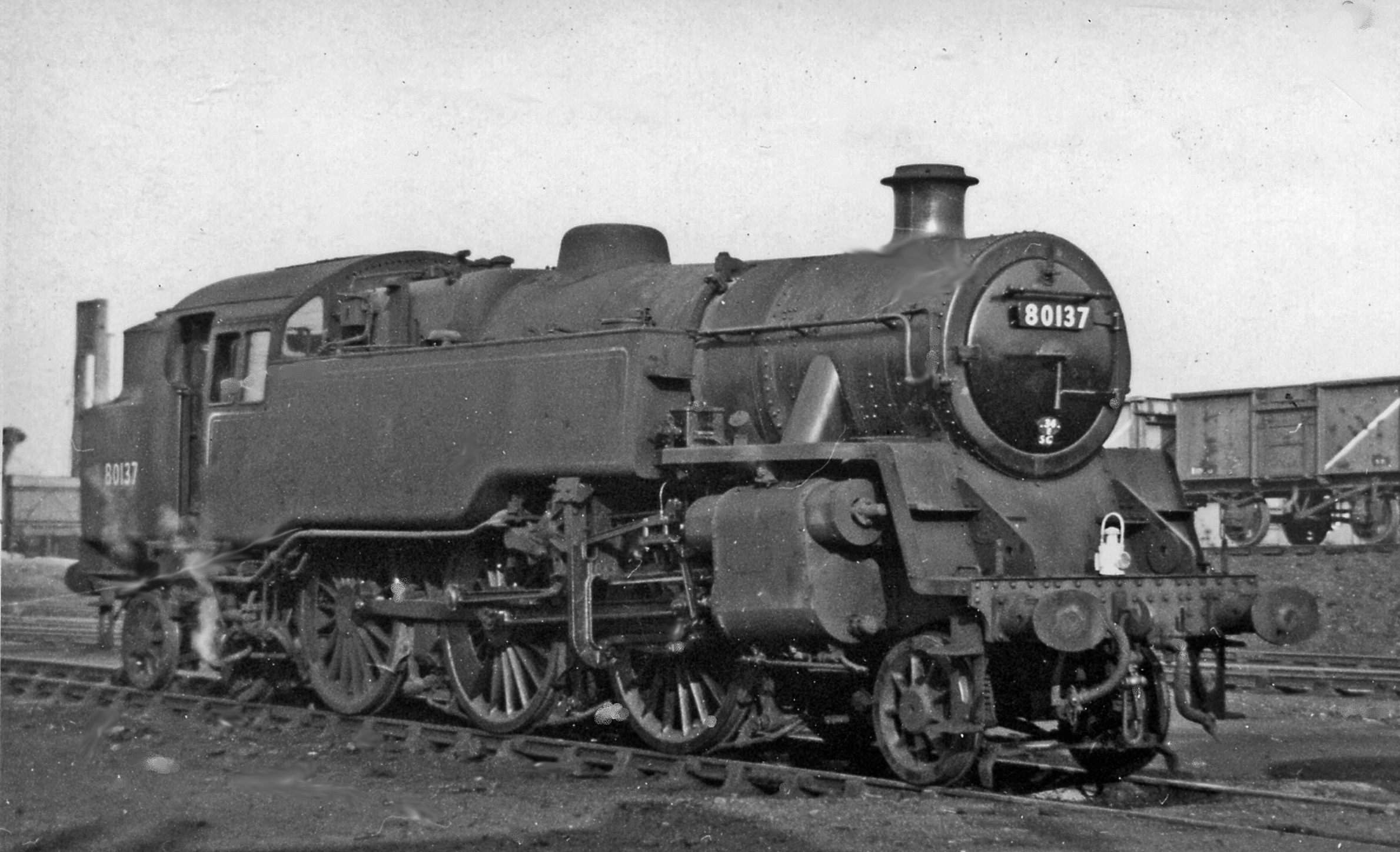 BR Standard 4MT 2-6-4T at Neasden Locomotive Depot. In the late 1950s BR Standard 2-6-4Ts took over from ex-LNER locomotives on the suburban services from Marylebone. Resting at Neasden is No. 80137 (built 5/56, withdrawn 10/65 - a short life, typical of the last years of BR steam)